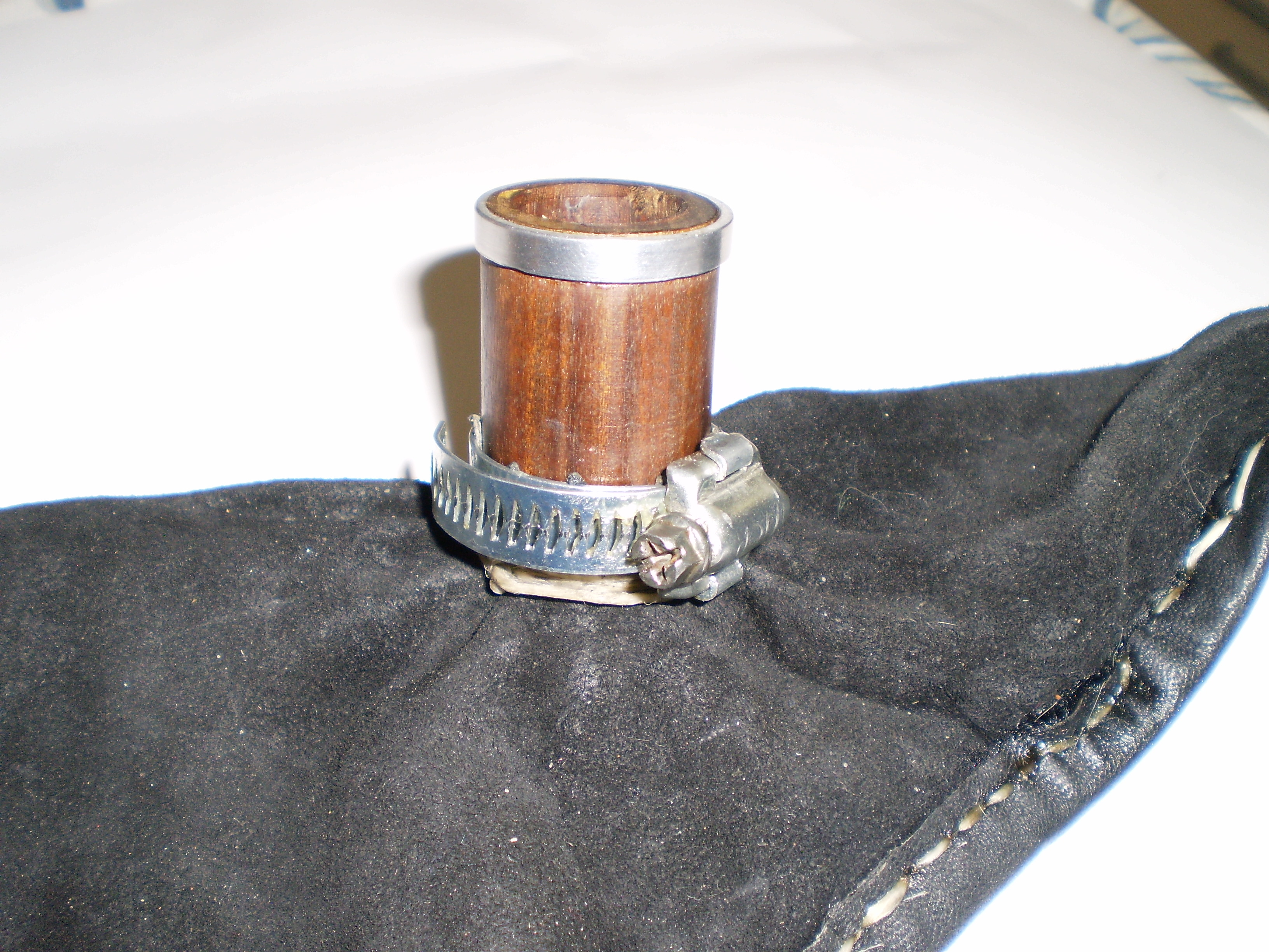 A generic jubilee clip used to hold the leather in place while tying-in the bag os bagpipes.